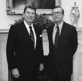 Ronald Reagan and Robert L. Barry in 1981 in Oval Office